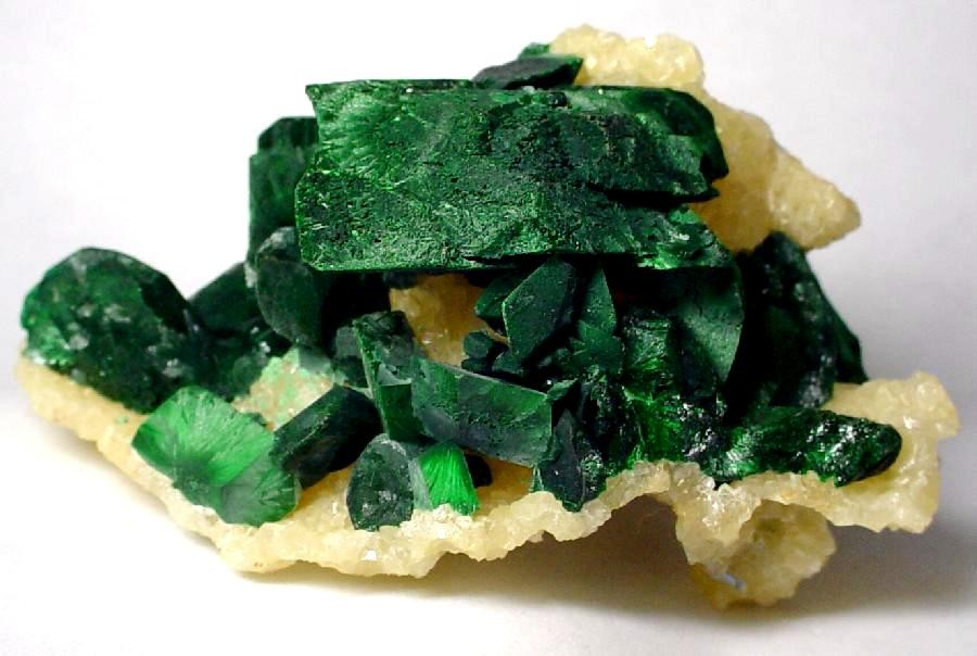 Malachite, Azurite, Smithsonite Locality: Tsumeb Mine (Tsumcorp Mine), Tsumeb, Otjikoto (Oshikoto) Region, Namibia (Locality at ) Size: 8 x 6 x 4.5 cm. The piece is complete all around and consists of a 3-dimensional upside-down bowl of smithsonite, lustrous and yellowish, on which the malachite crystals perch. The malachite crystals are velvety, and richly colored, and pristine as well. Ex. Sussman, Paul Egleston, American Museum of Natural History, and Bill Smith Collections.